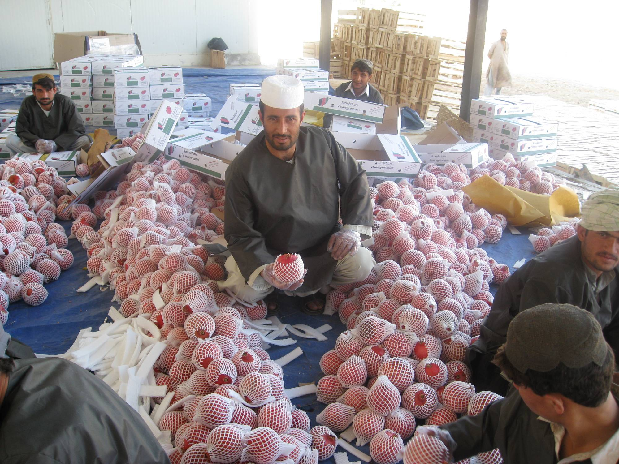 Afghan pomegranate processing.